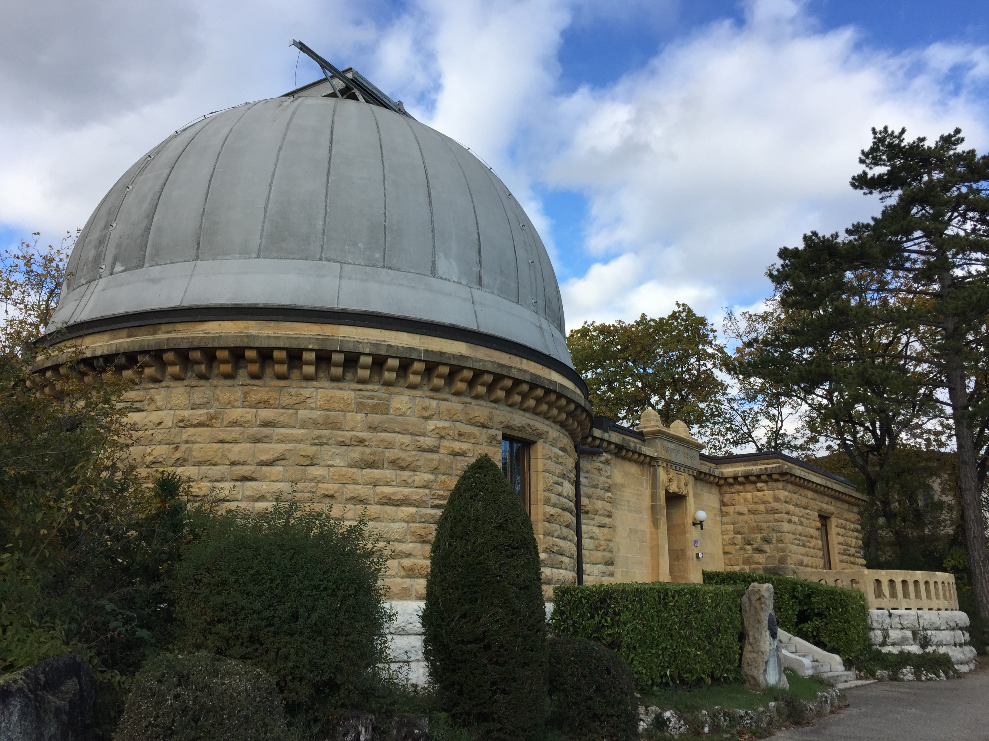 Neuchâtel, State Observatory, the entire Pavillon Hirsch built in 1909-1912.